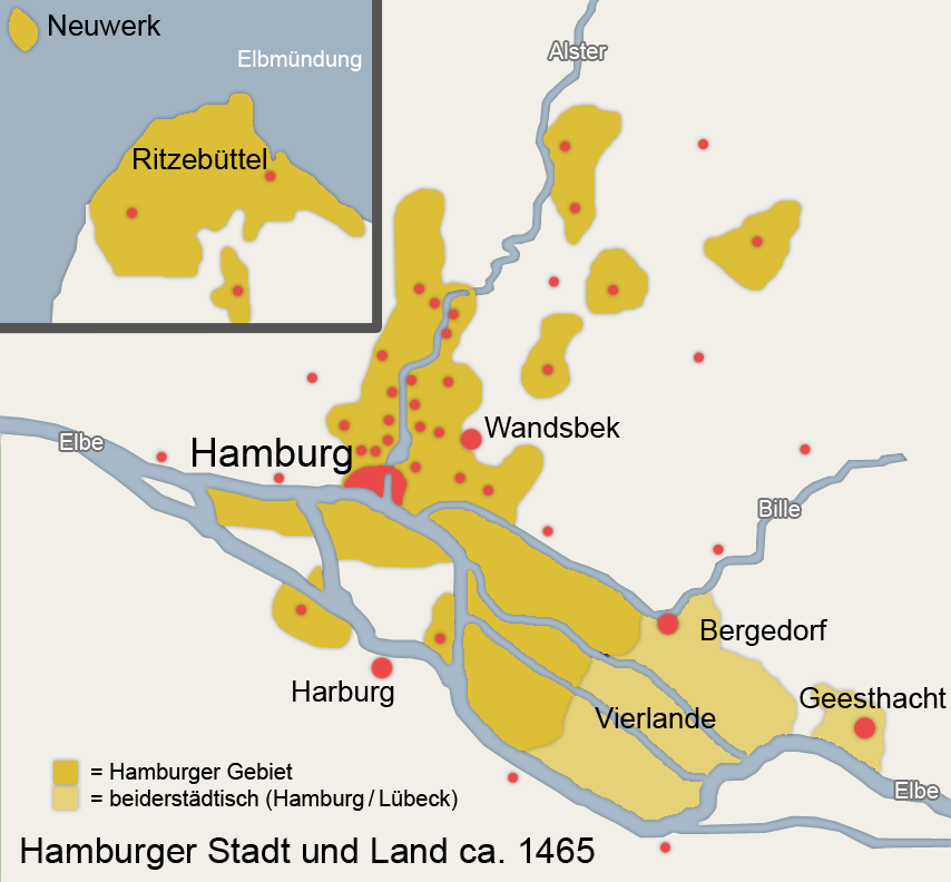 own drawing from atlas town of hamburg an surrounding app. 1465